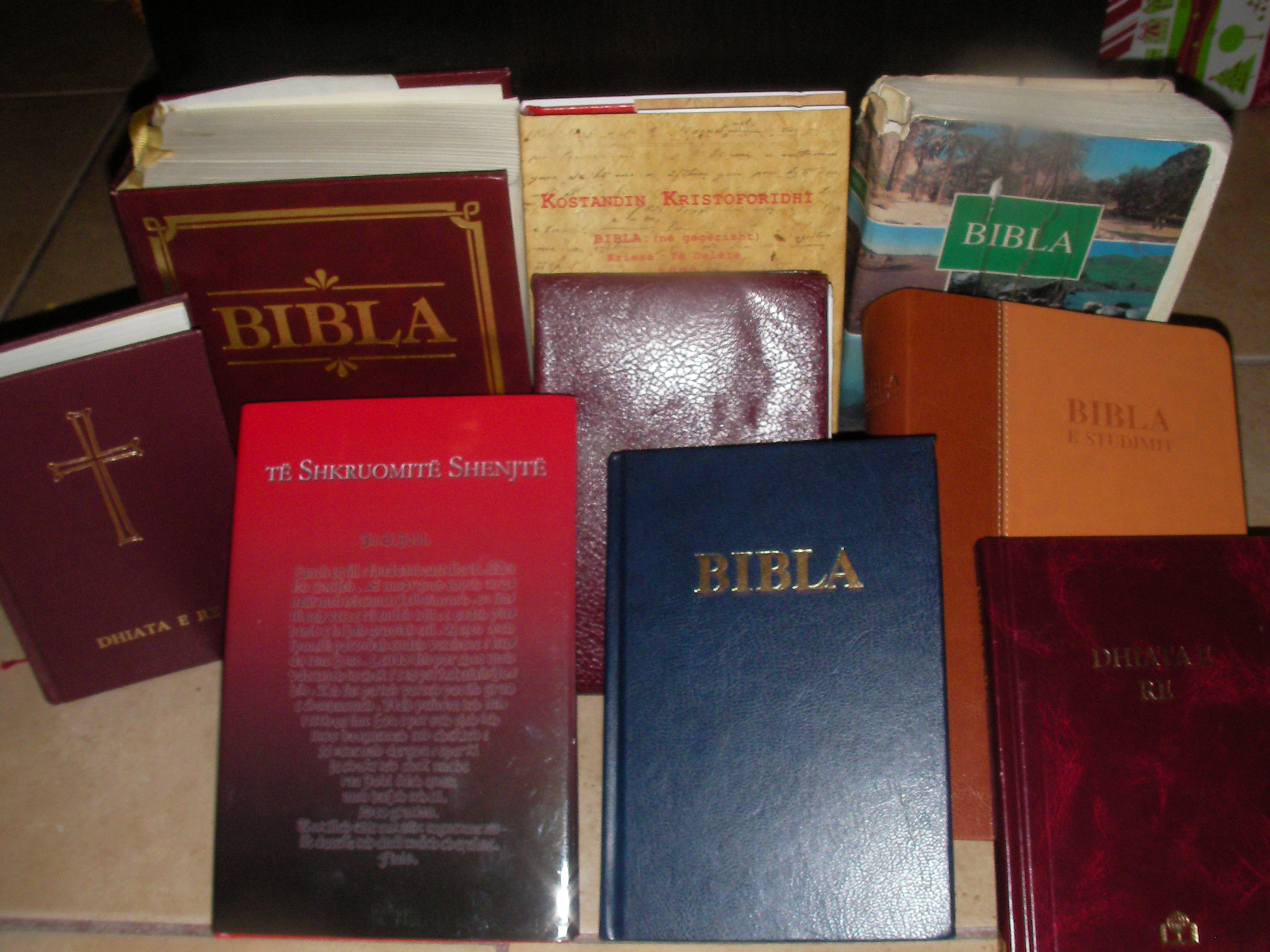 Different Albanian Bible translations